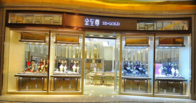 金至尊珠寶分店